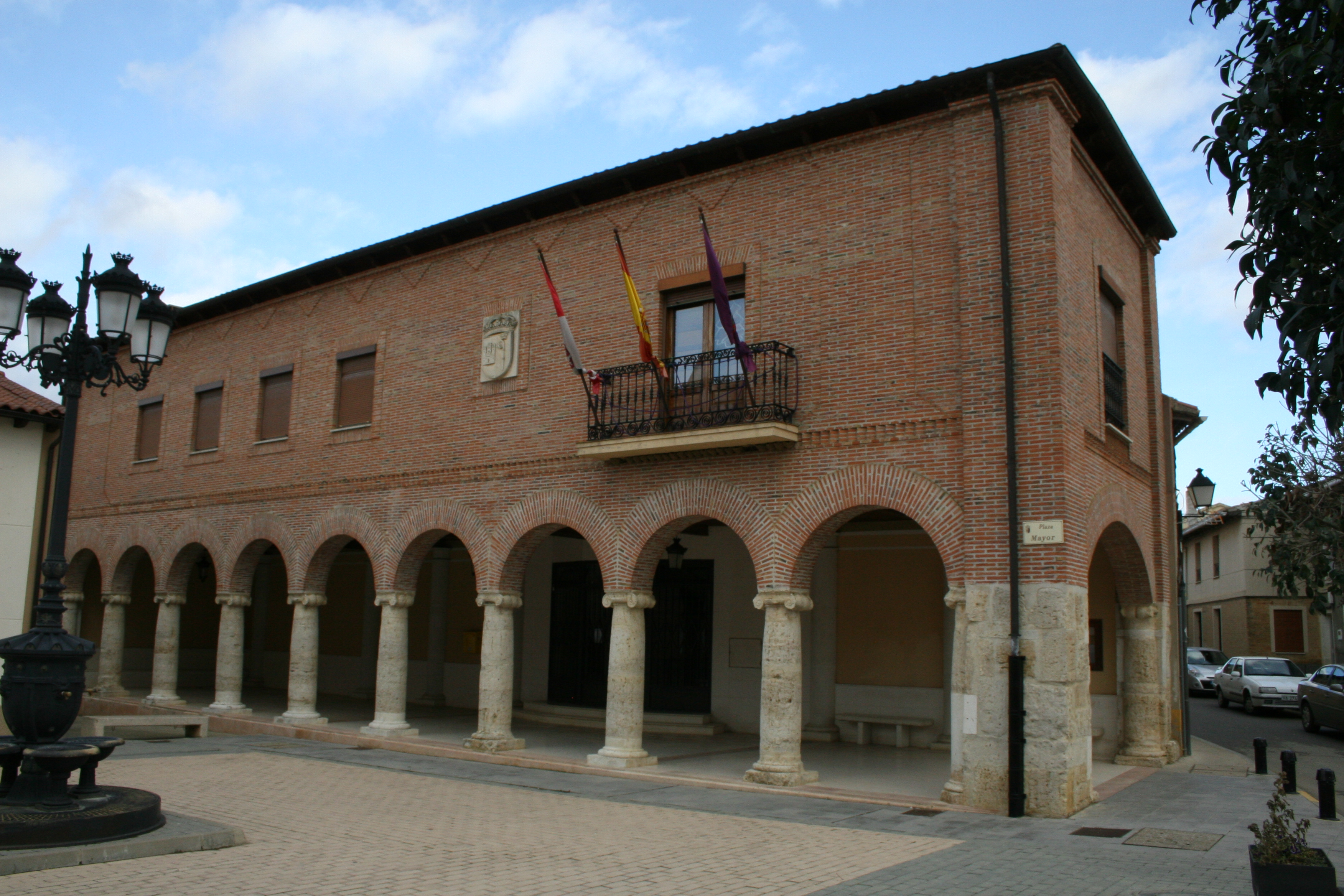 Villaumbrales' Cityhall